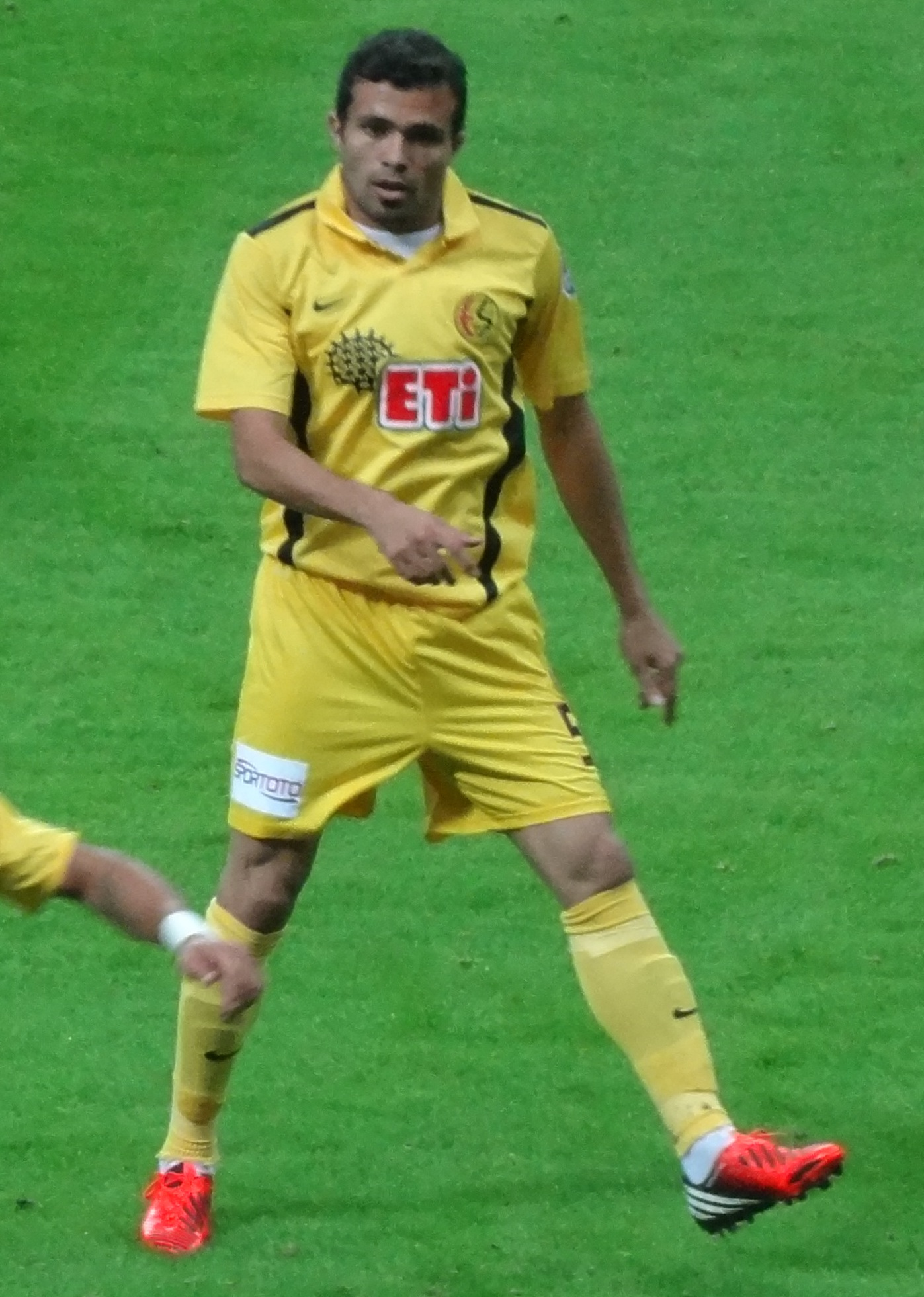 Hürriyet against GS